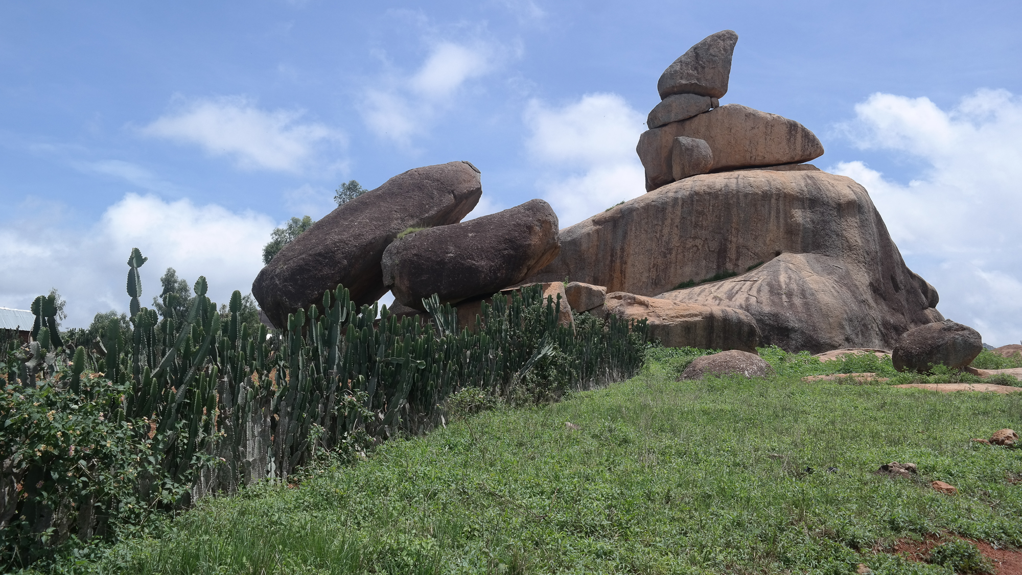 Riyom rocks1